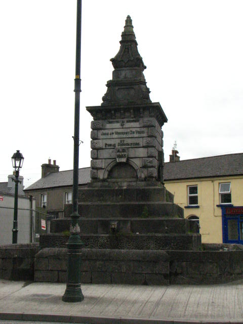 De Vesci Monument This monument was erected by the town of Abbeyleix in 1855 to commemorate John Vesey, 2nd Viscount de Vesci, who had been the Lord Lieutenant of the county since 1839.